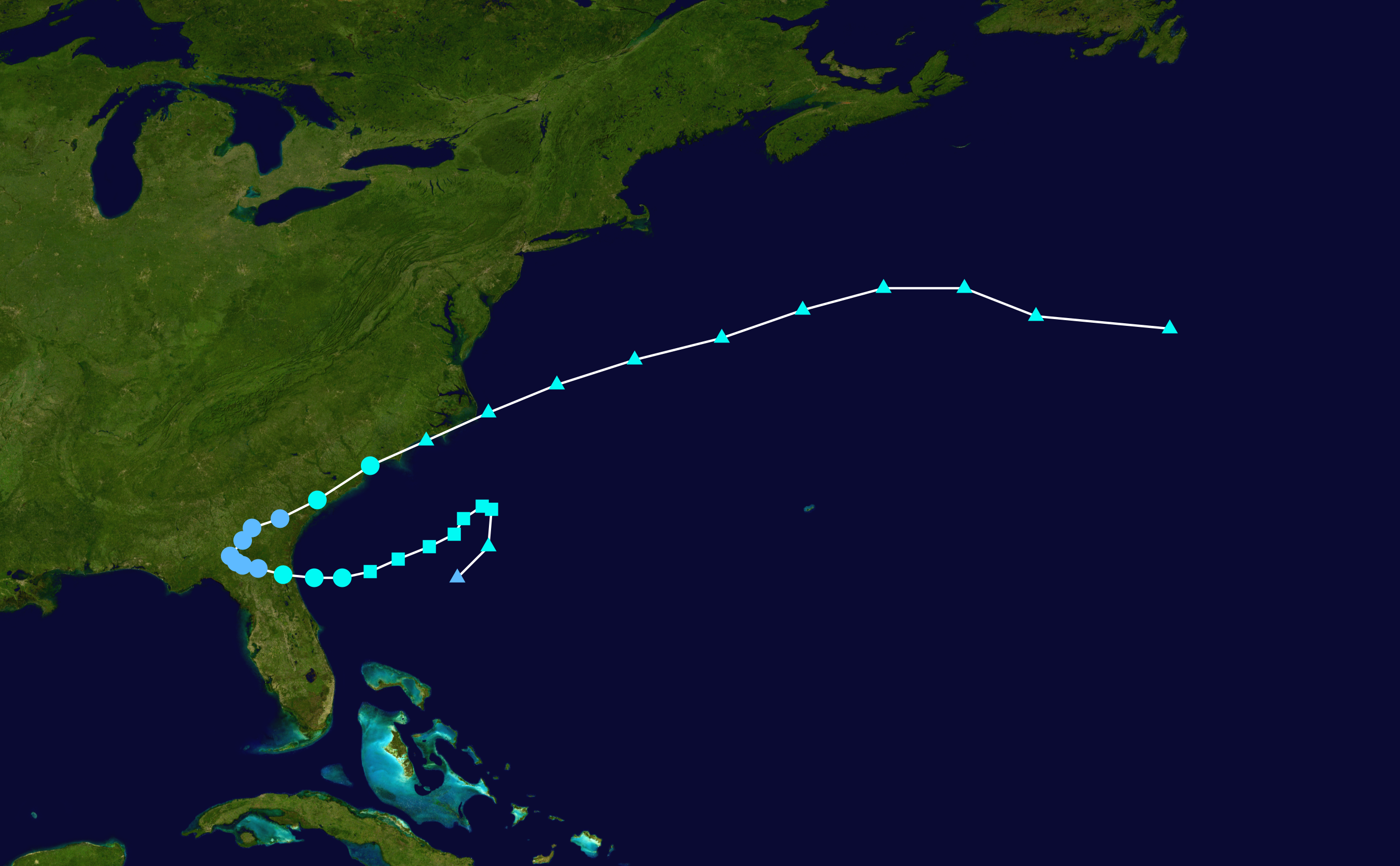 Track map of Tropical Storm Beryl of the 2012 Atlantic hurricane season. The points show the location of the storm at 6-hour intervals. The colour represents the storm's maximum sustained wind speeds as classified in the Saffir–Simpson scale (see below), and the shape of the data points represent the nature of the storm, according to the legend below. Saffir–Simpson scale Tropical depression≤38 mph≤62 km/h Category 3111–129 mph178–208 km/h Tropical storm39–73 mph63–118 km/h Category 4130–156 mph209–251 km/h Category 174–95 mph119–153 km/h Category 5≥157 mph≥252 km/h Category 296–110 mph154–177 km/h Unknown Storm type Tropical cyclone Subtropical cyclone Extratropical cyclone / Remnant low / Tropical disturbance / Monsoon depression